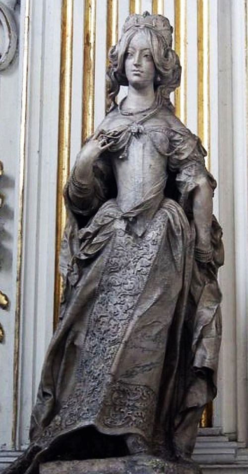 The Piasts Mausoleum in St. John the Baptist Church in Legnica Native nameMonumentum PiasteumLocationLegnicaCoordinates51° 12′ 33″ N, 16° 09′ 32″ E Established1679Authority control : Q11771813